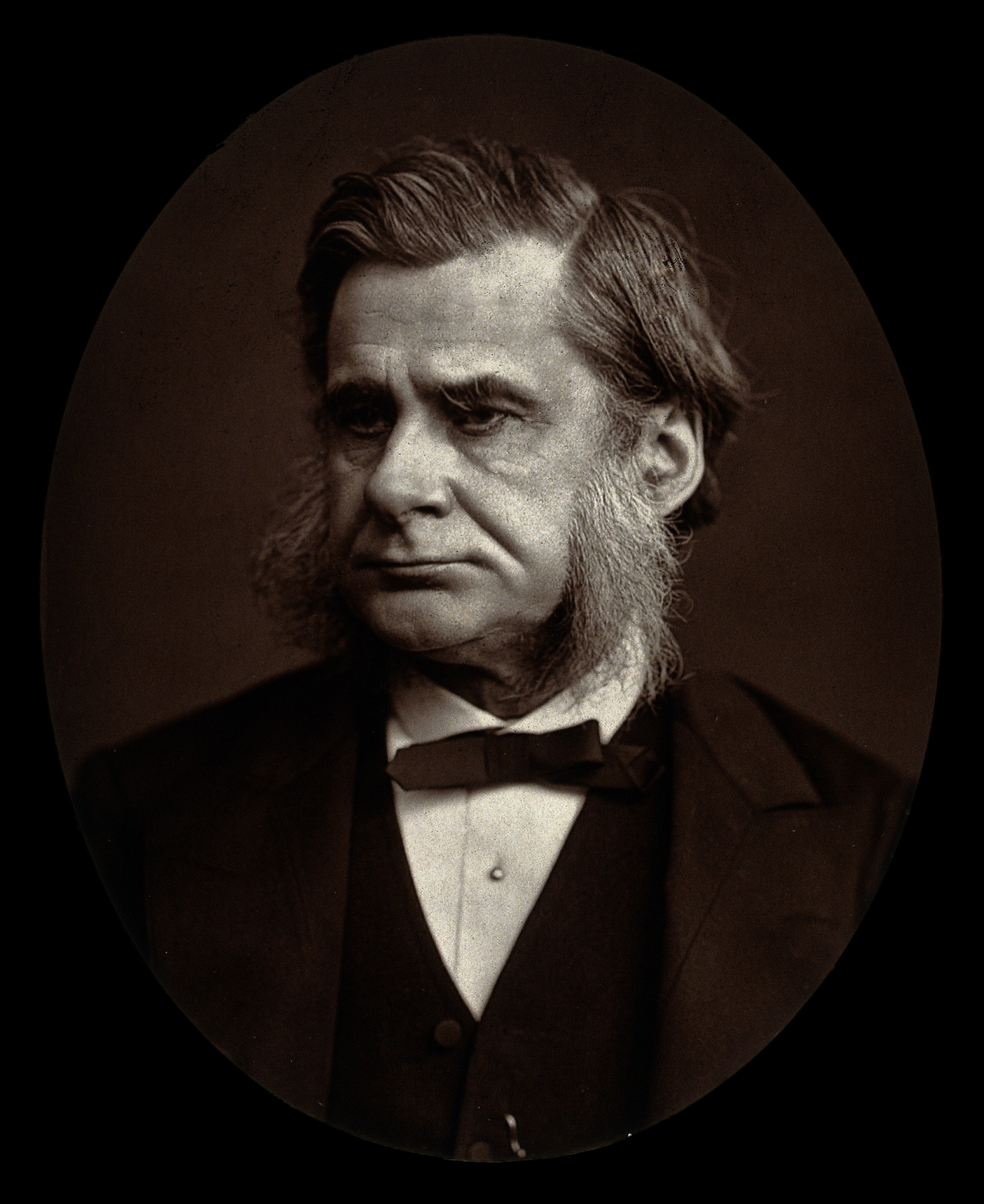 Thomas Henry Huxley. Photograph by Lock & Whitfield. Iconographic Collections Keywords: portrait photographs